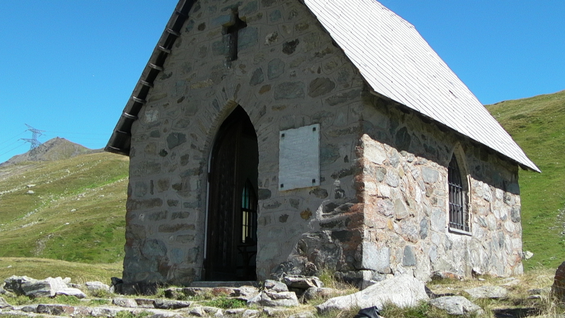 Grave chapel of Pierre Chanoux on Little-Saint-Bernard Pass